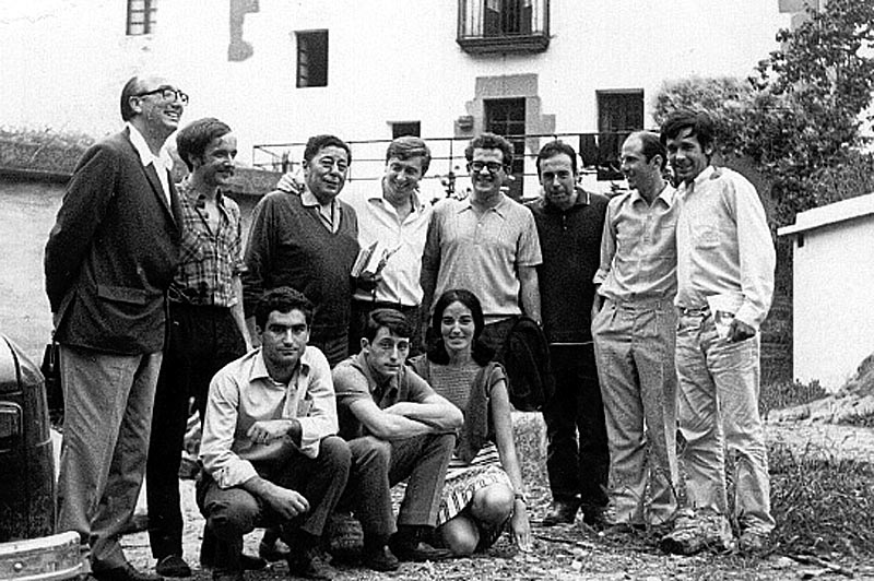 Some members of Ez Dok Amairu — a Basque cultural group of the years 1965-1972 — with the Argentinian singer Atahualpa Yupanqui.